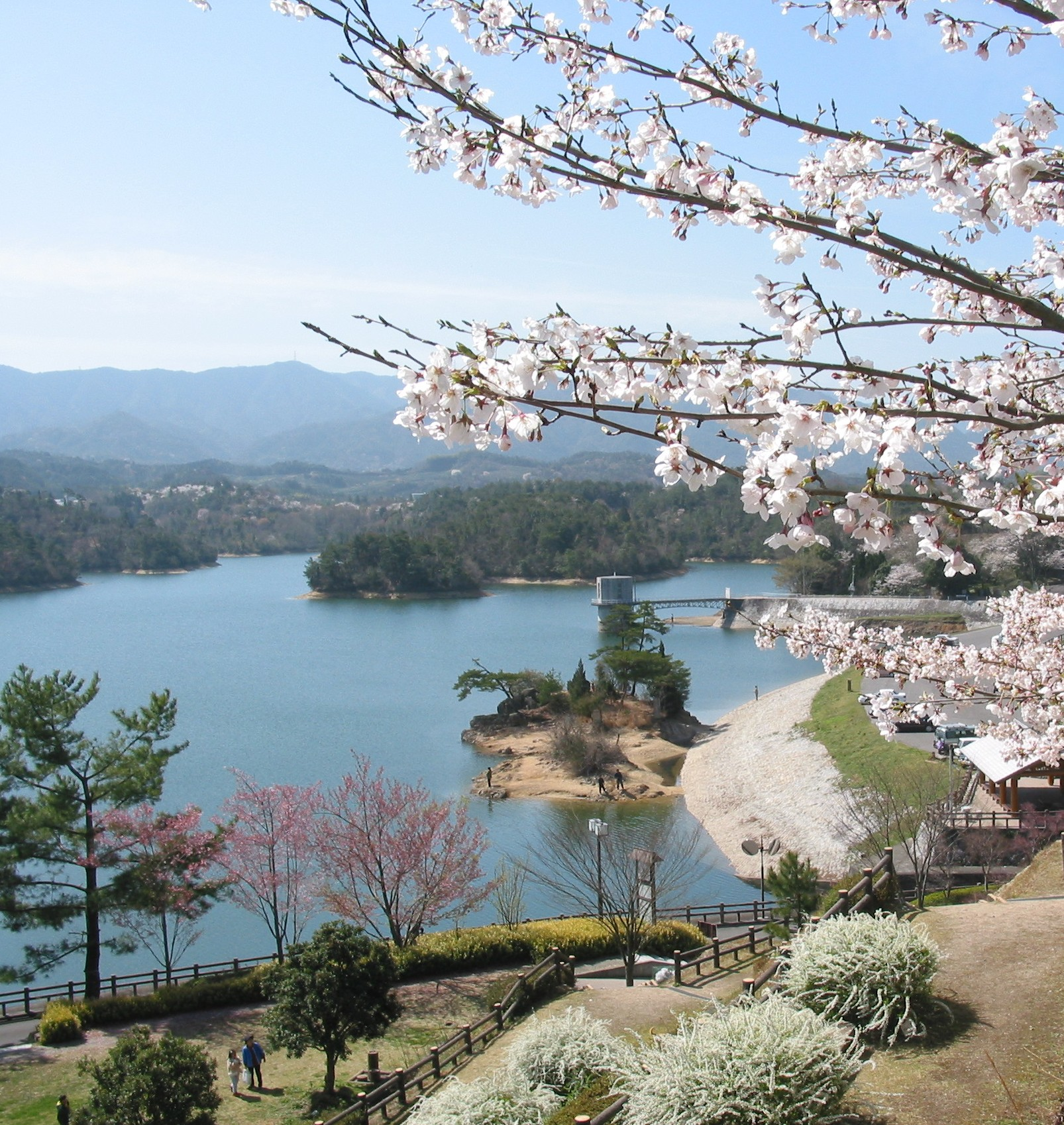 Sakura at Manno Lake